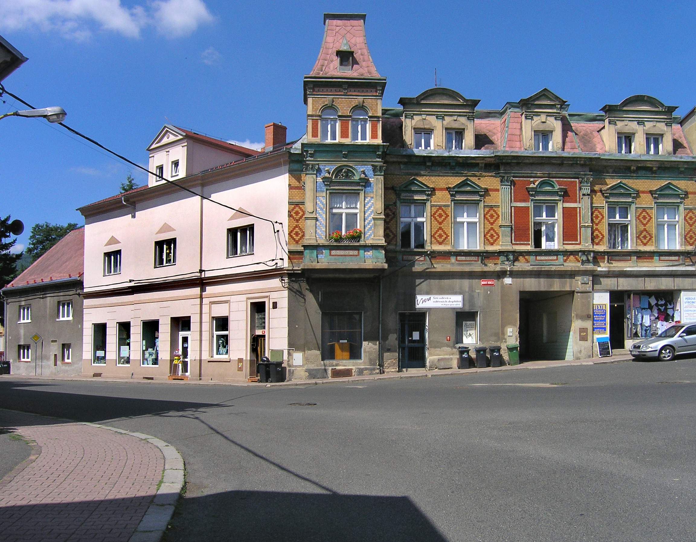 Intersection of Mírové square and Duchcovská street in Hrob town, Czech Republic